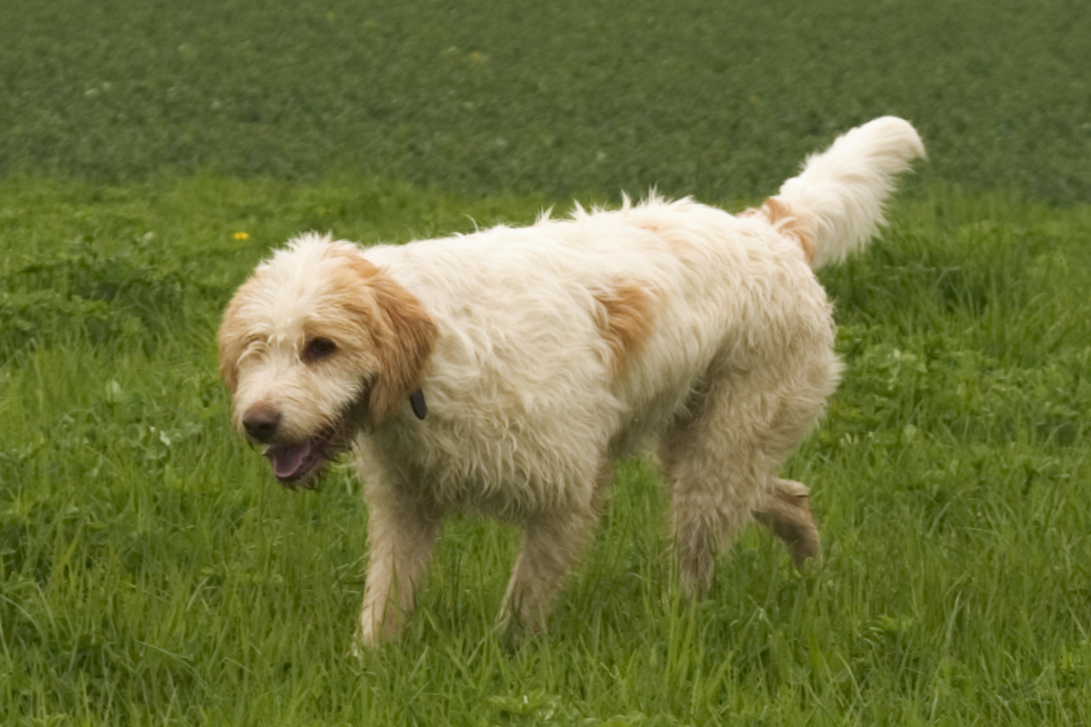 This is a Briquet Griffon Vendéen. His name is Unno du Sentier D'Aimeron.